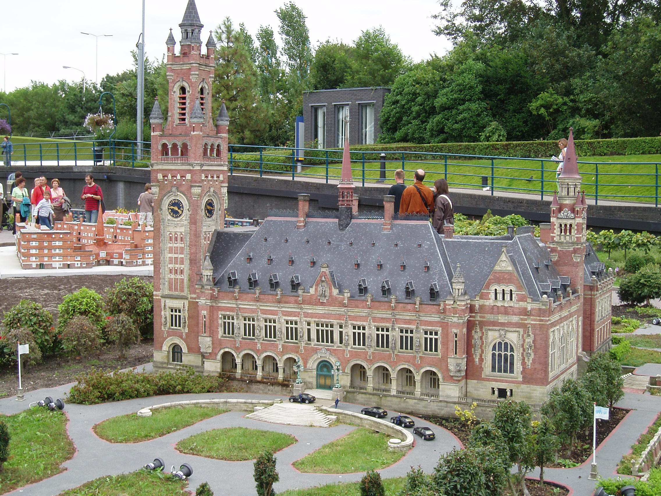 Madurodam in the Hague in the Netherlands; Peace Palace / Vredespaleis in Den Haag